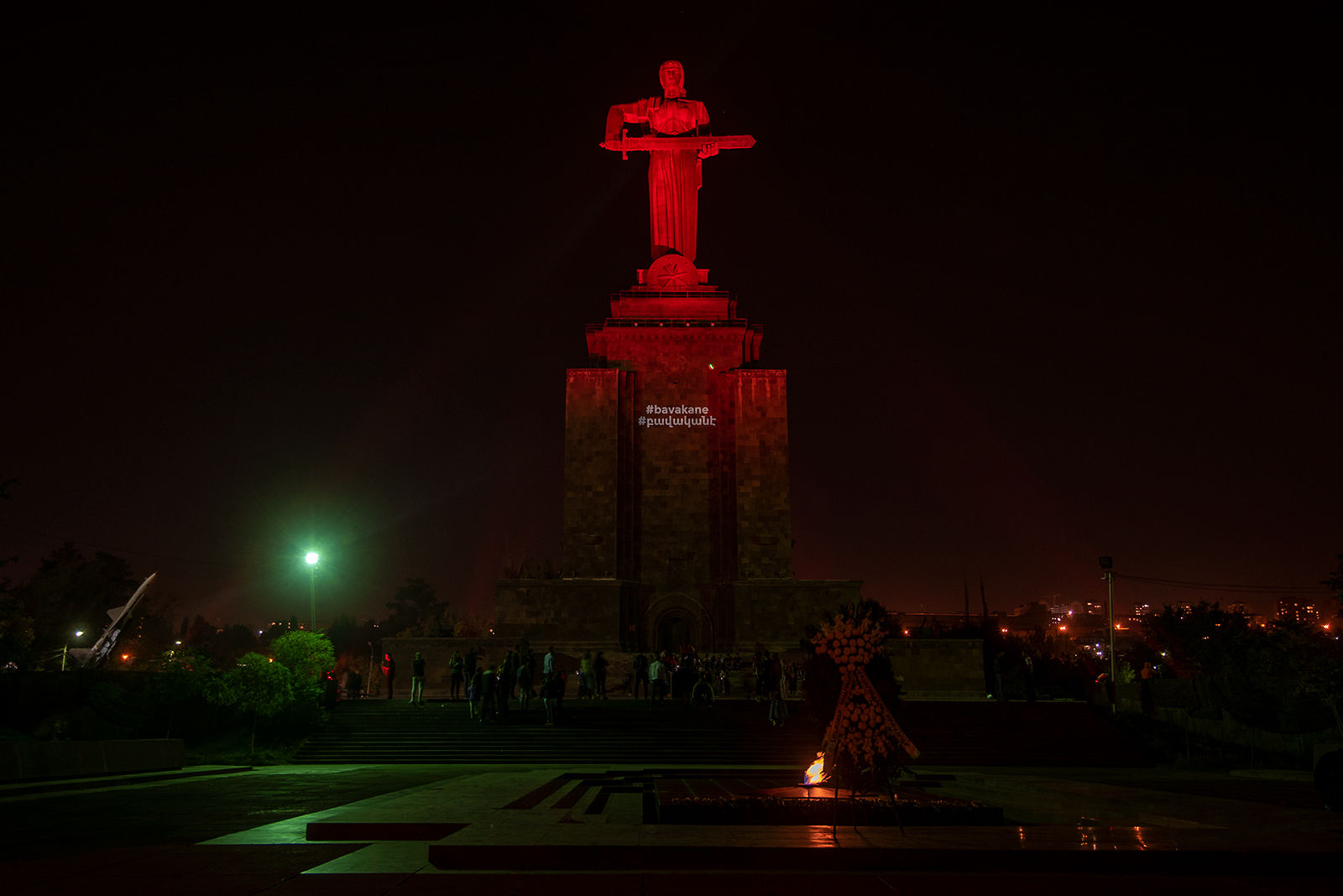 Red Mother Armenia, #Bavakane Social Campaign against sex-selective abortions in Armenia, October 11, 2019 Կարմիր Մայր Հայաստան, #Բավականէ սոցիալական արշավ ընդդեմ սեռով պայմանավորված հղիության արհեստական ընդհատումներին Հայաստանում, 11 հոկտեմբերի, 2019թ․։